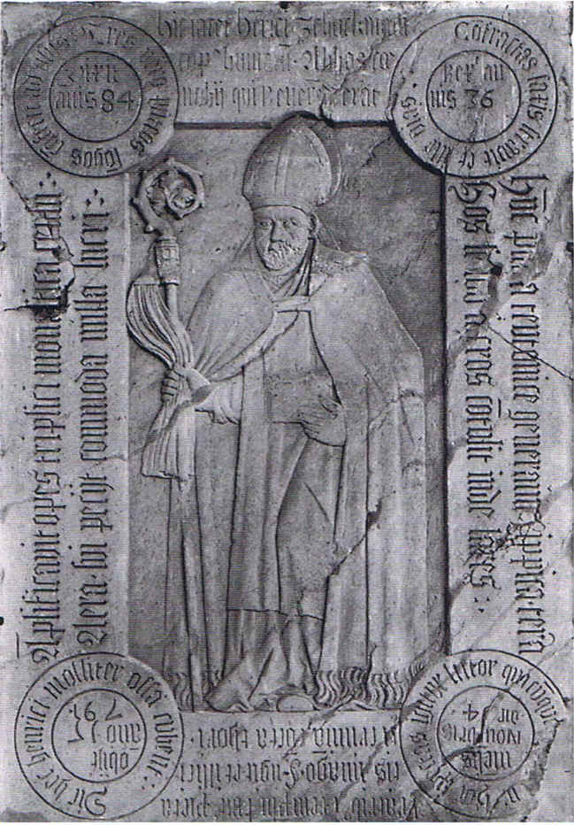 Ledger stone of abbot Heinrich Schuckmann